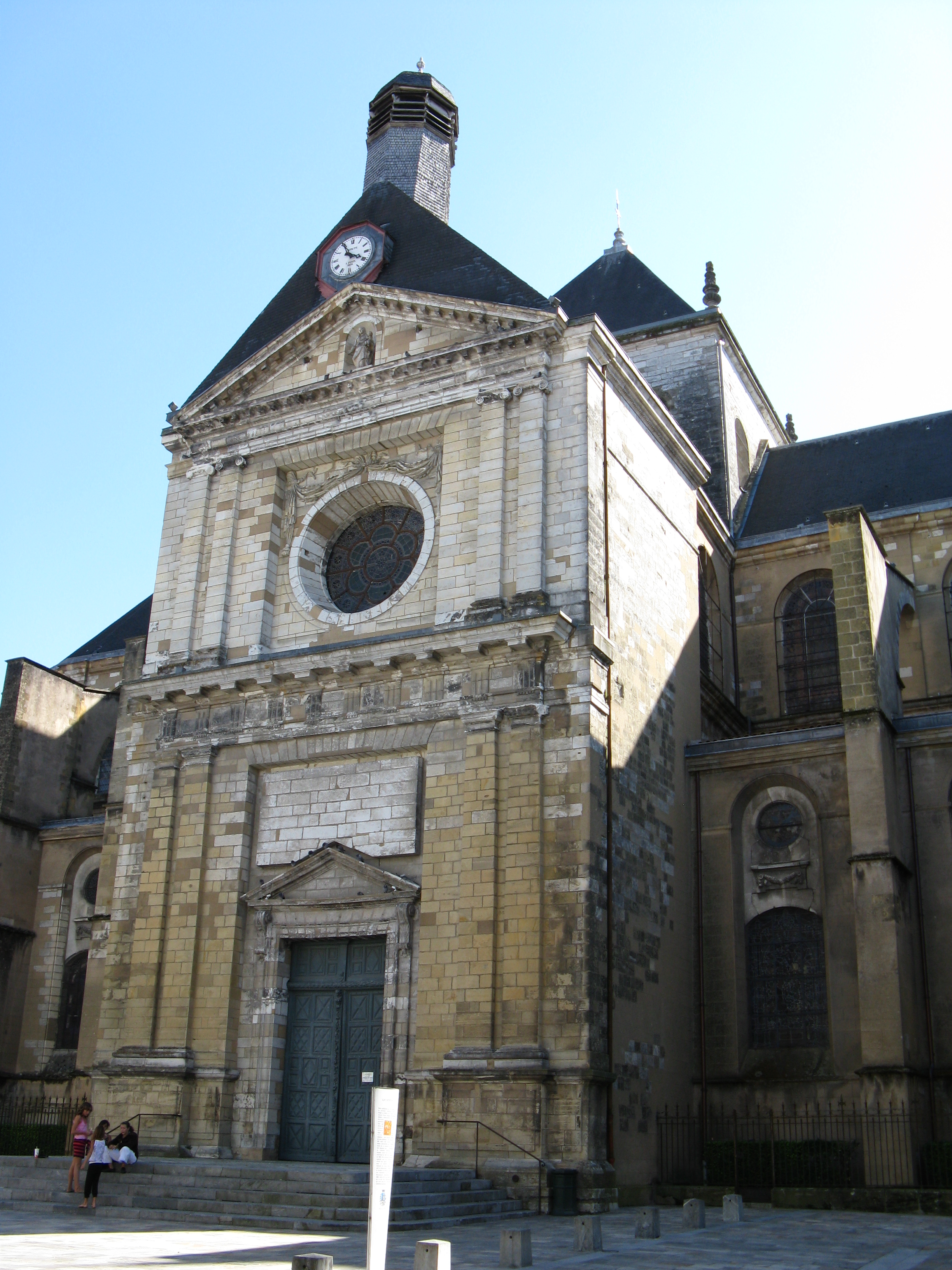 The cathedral of Dax